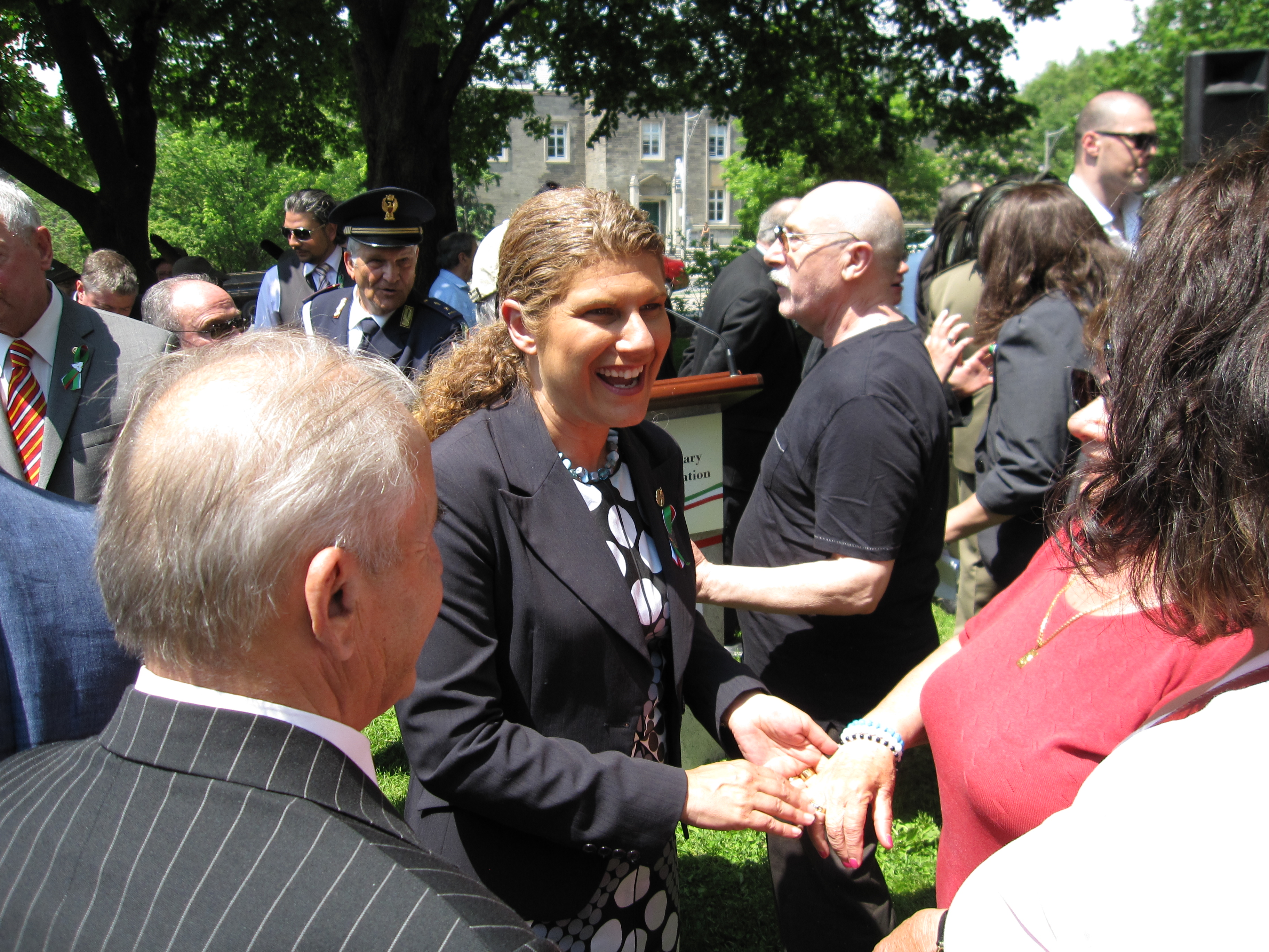 Italian Day Flag Raising at Queen's Park, May 30 2013